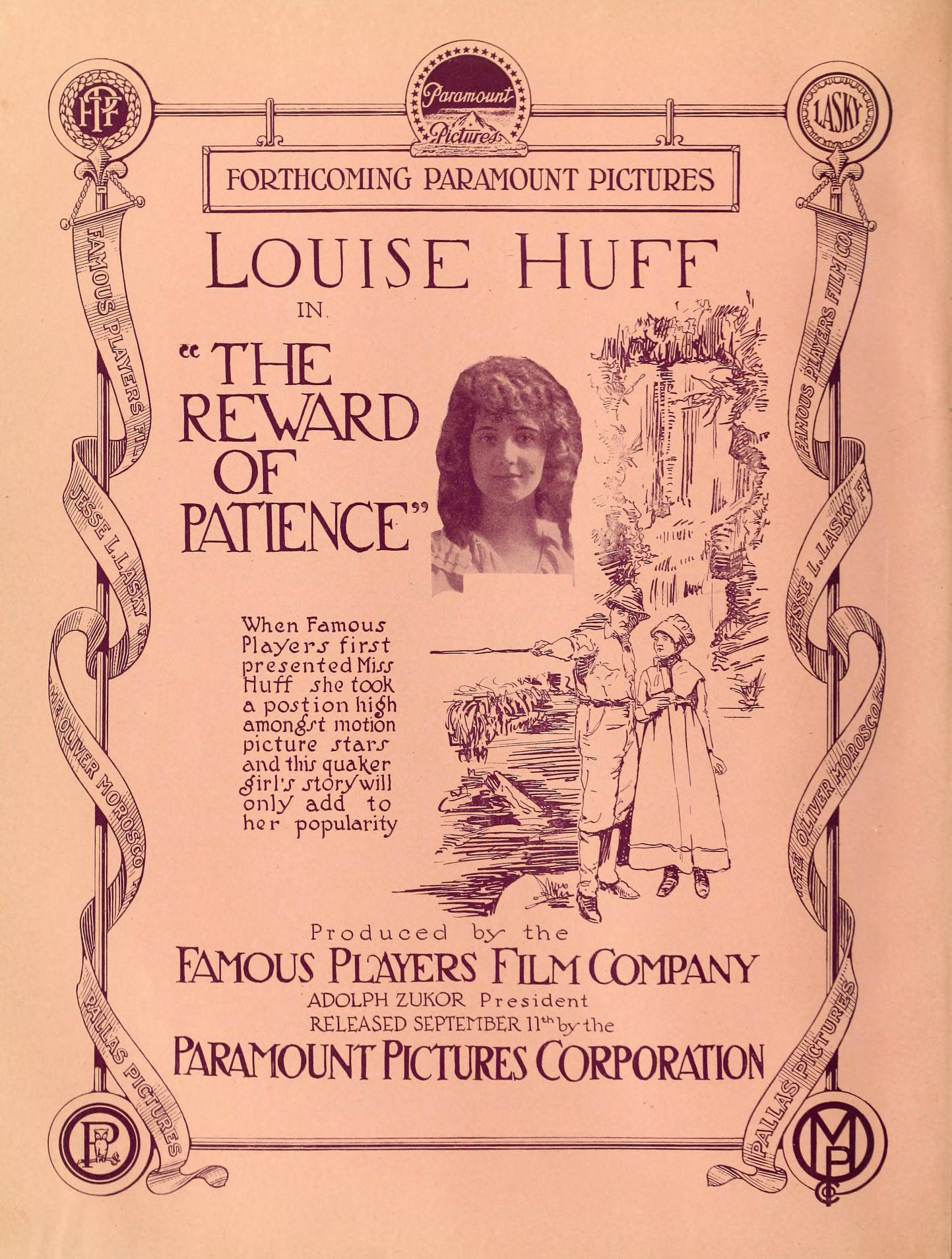 Advertisement in Moving Picture World for the film The Reward of Patience (1916).